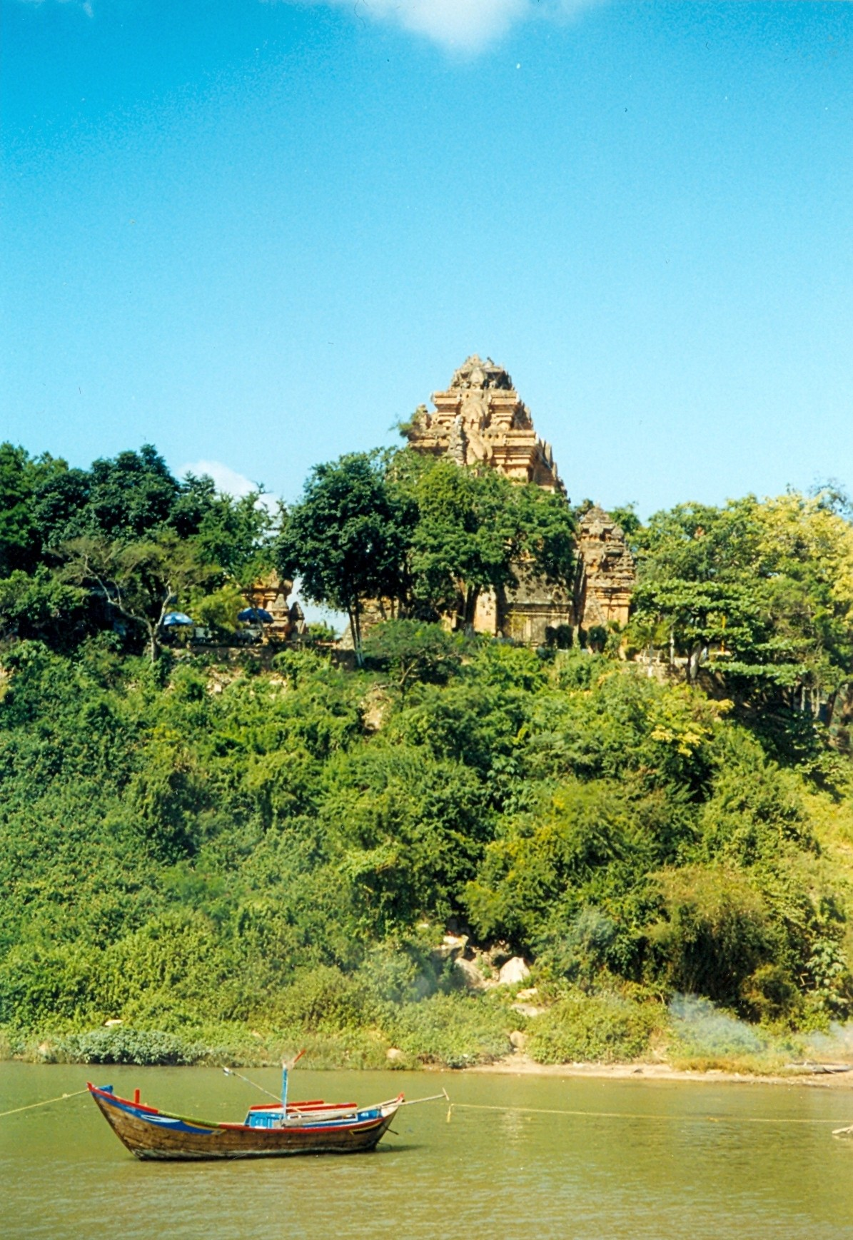 Po Nagar Cham towers at the mouth of Cái River, Nha Trang, Vietnam.